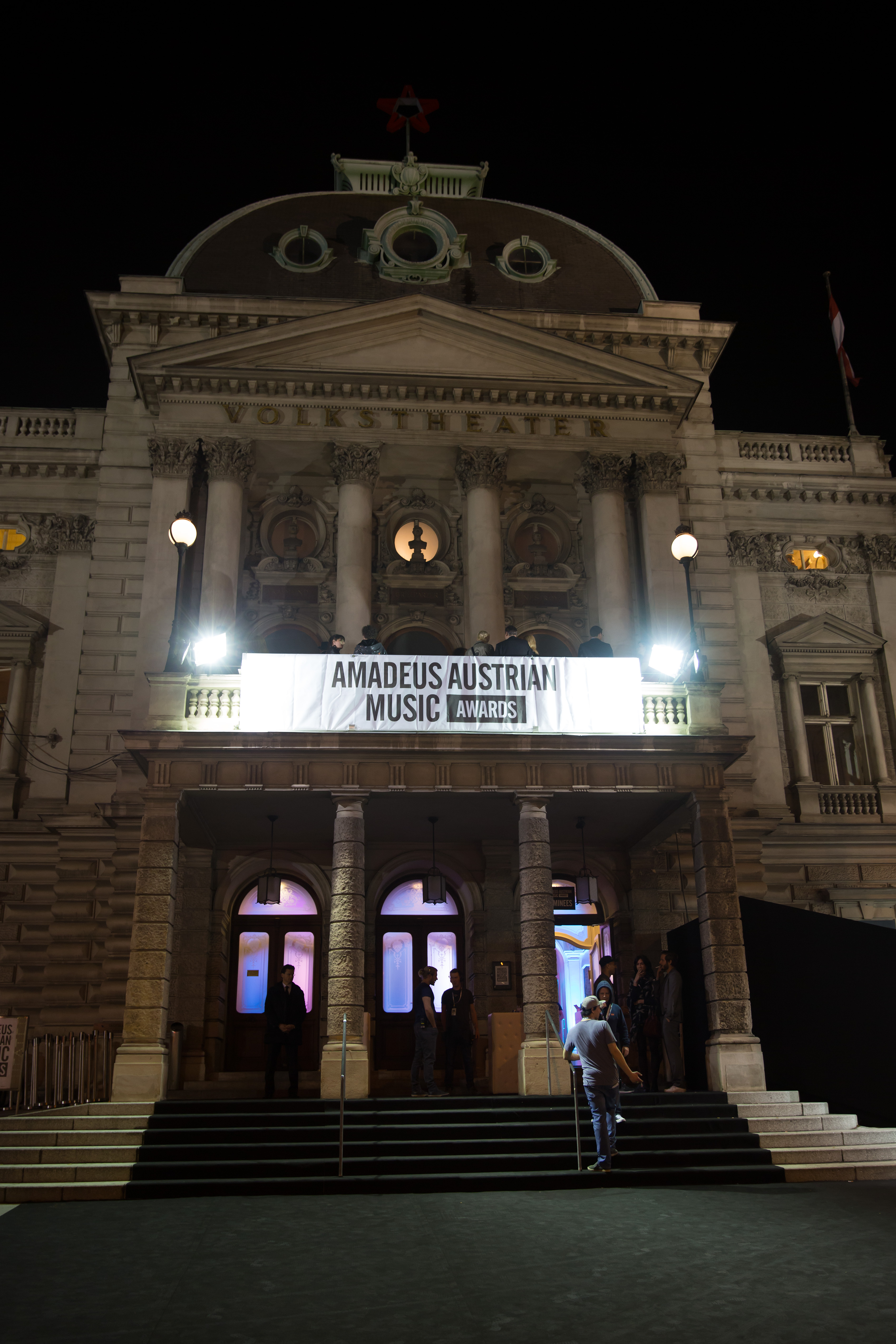 Amadeus Austrian Music Award 2015 at Volkstheater in Vienna